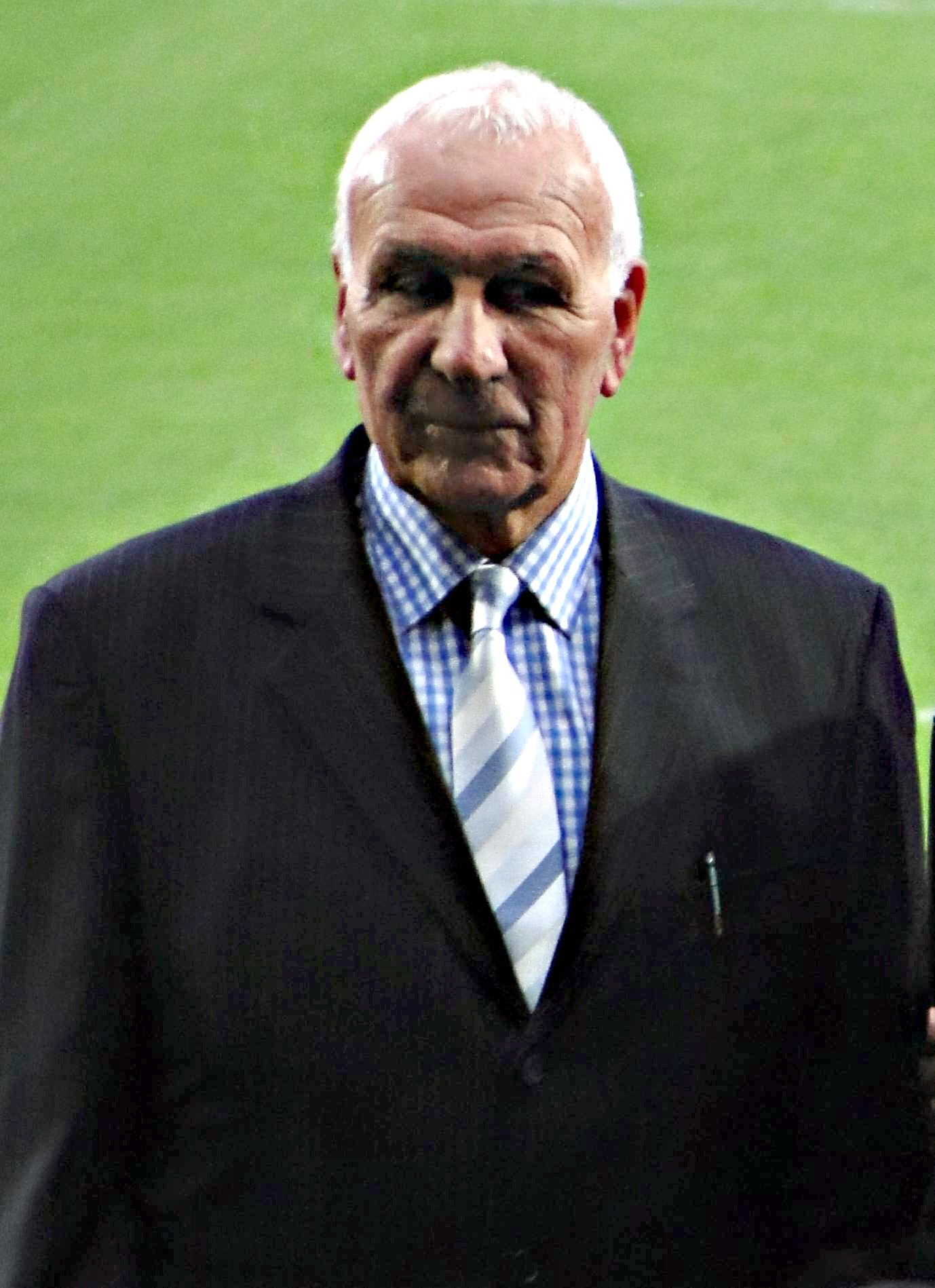 Ex West Ham and Chelsea player Peter Brabrook at Tony Carr's testimonial game, Upton Park, May 2010